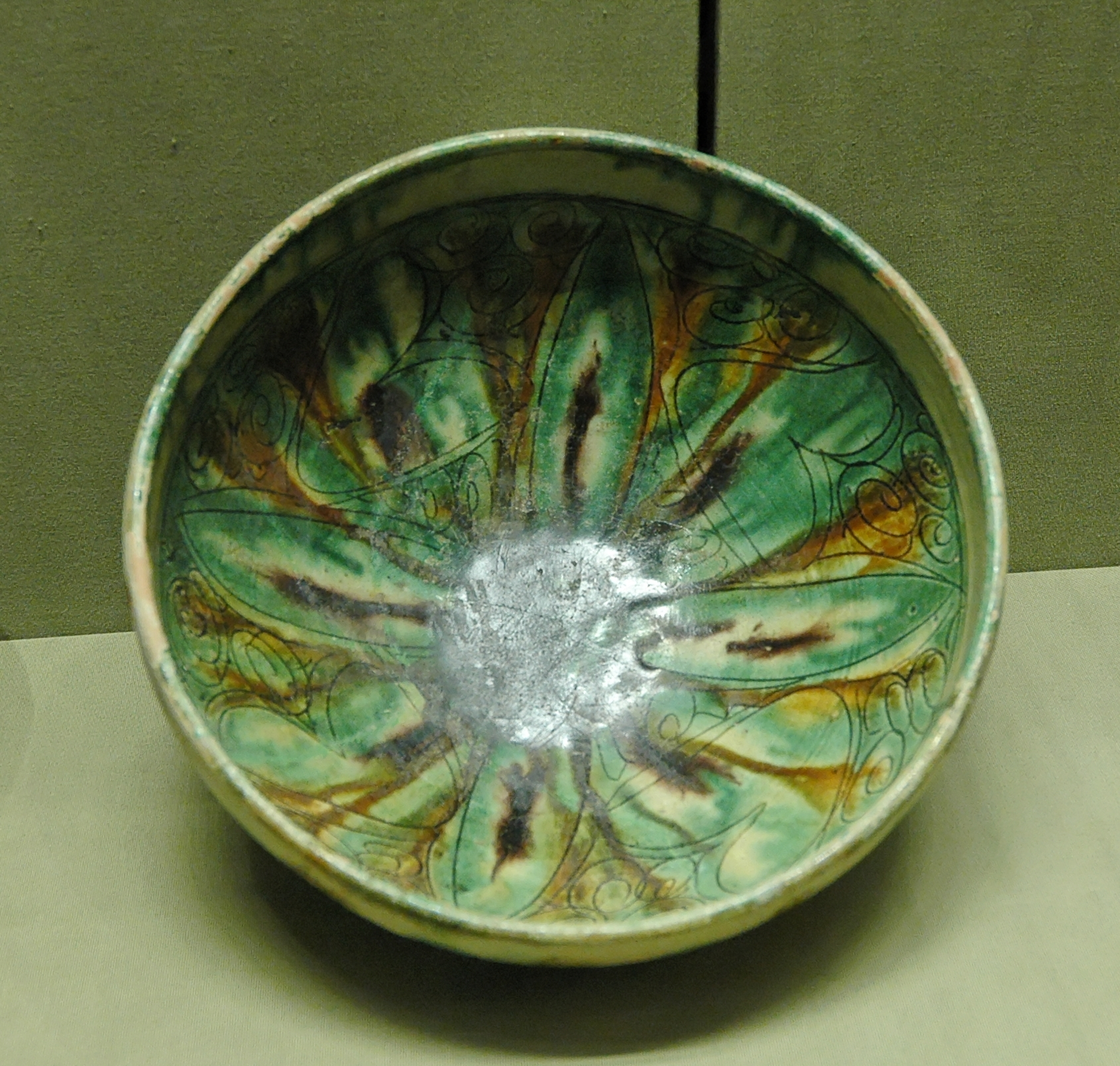 Cup with mottled decoration. Slipped terracotta with engraved decoration, transparent coloured glaze, underglaze painted. Khurasan or Transoxiana, 10-11th century.